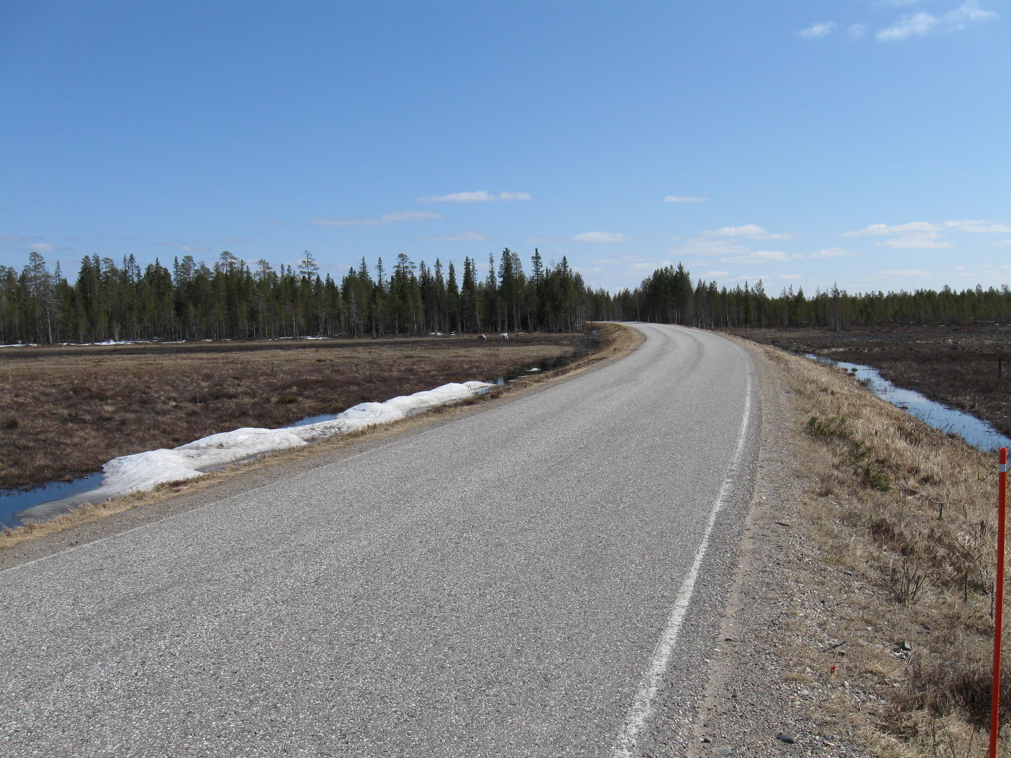 Regional road 923 in Tervola, Finland, at Hangassalmenaho (Martimoaapa), towards South-East.